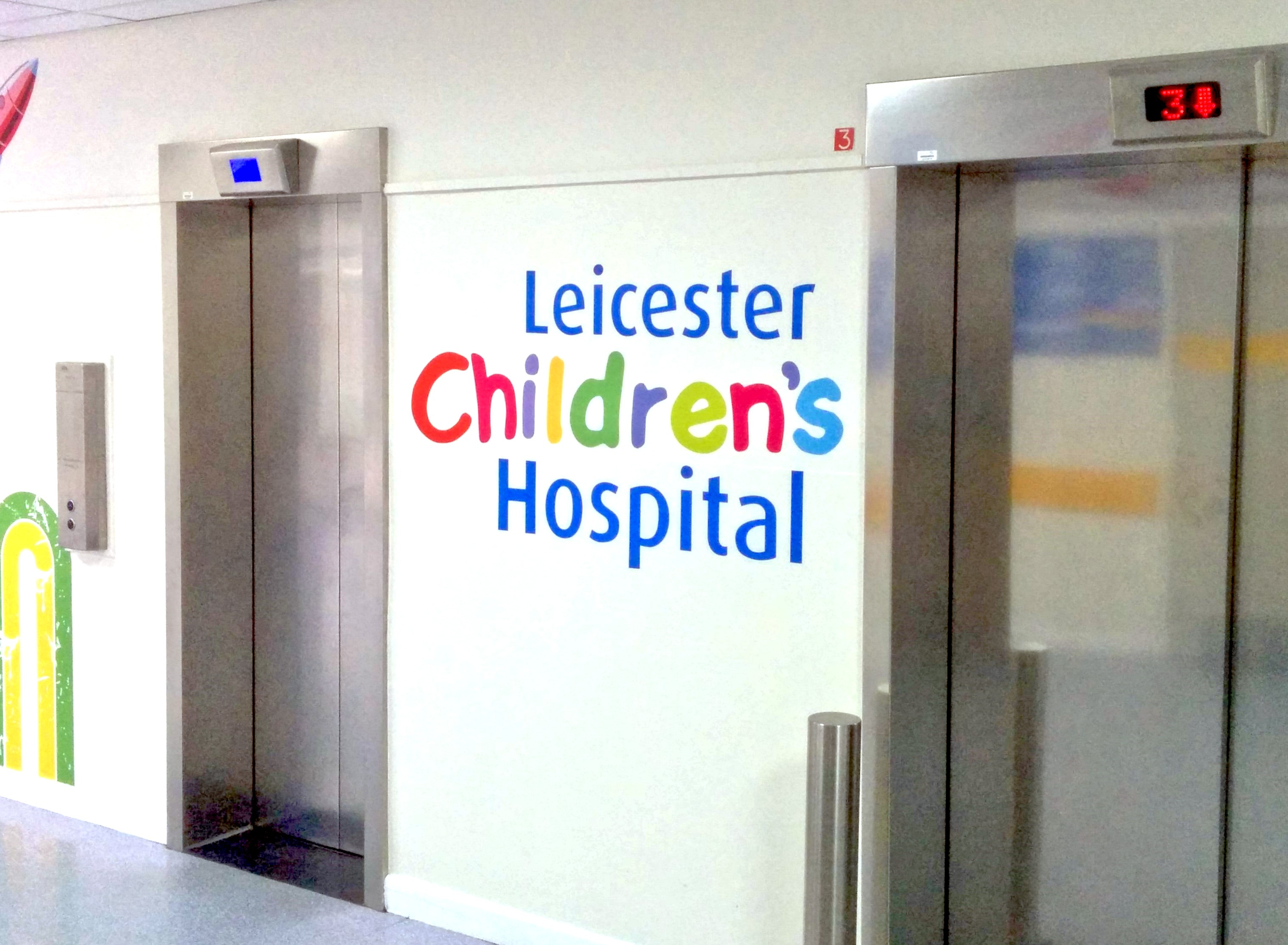 Balmoral building in Leicester Royal Infirmary in january 2017